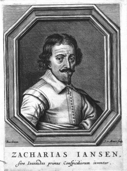 Portrait of Sacharias Jansen